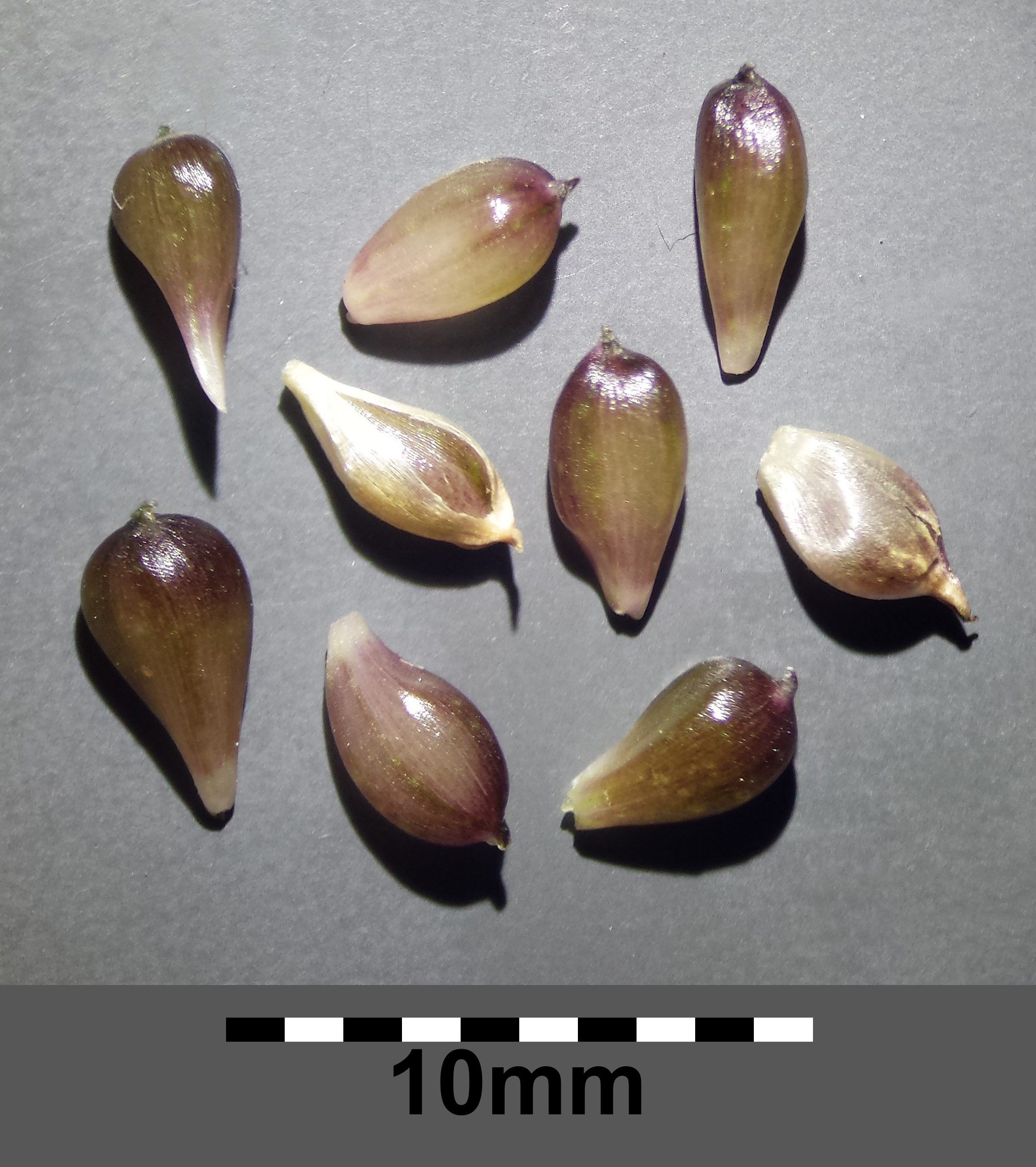 Bulbils Taxonym: Allium vineale ss Fischer et al. EfÖLS 2008 ISBN 978-3-85474-187-9 Location: Neue Donau, Vienna-Floridsdorf - ca. 160 m a.s.l. Habitat: dry meadows